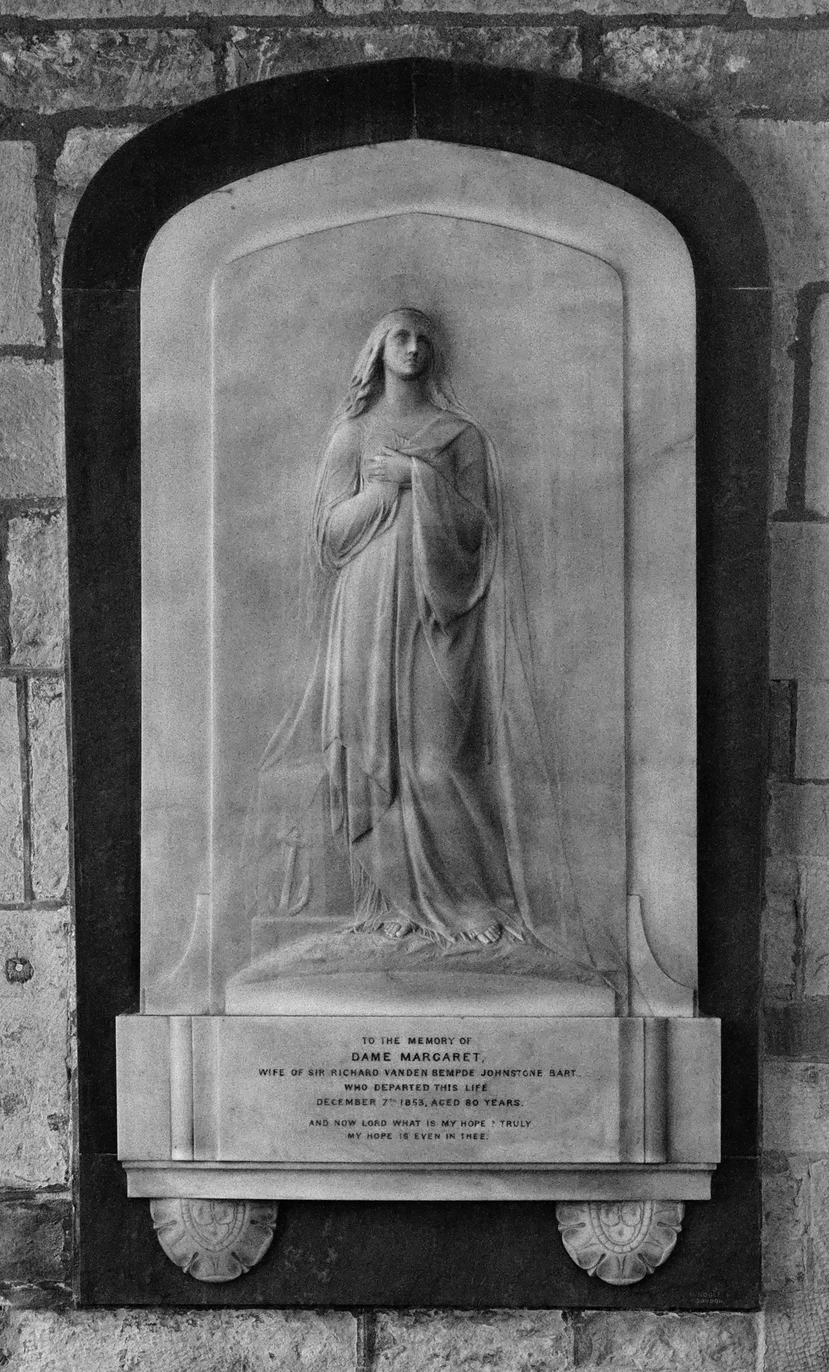 Relief by Matthew Noble